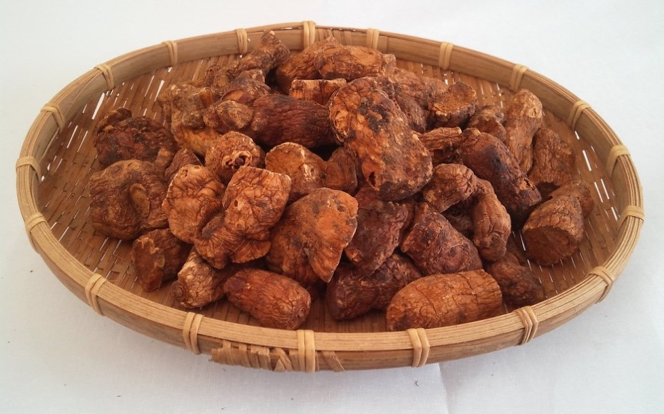 dunggulle – lesser Solomon's seal (Polygonatum odoratum var. pluriflorum) roots